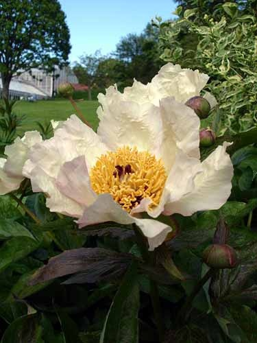 Paeonia × arendsii 'Mai Fleuri'